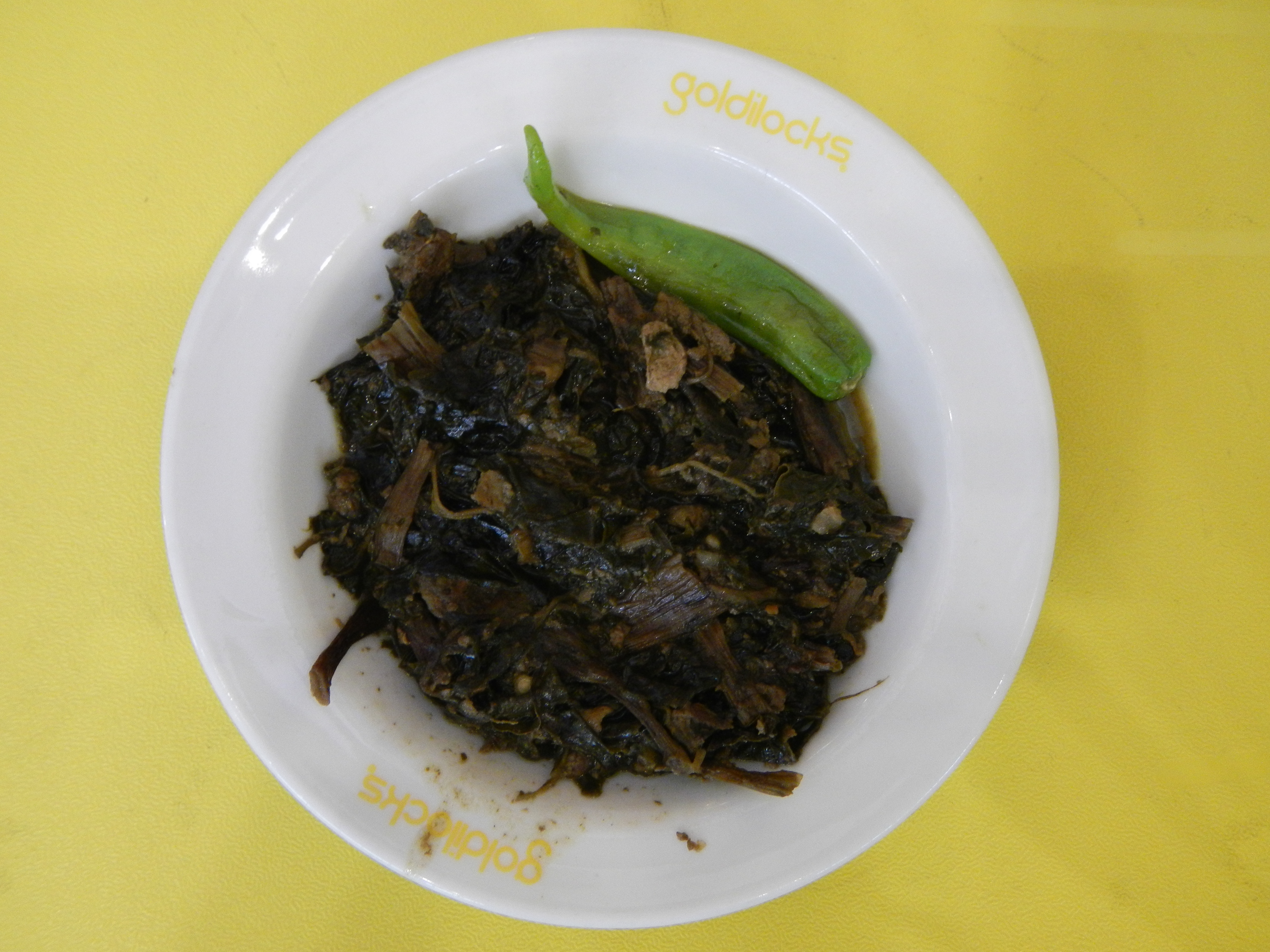 Laing [1][2]